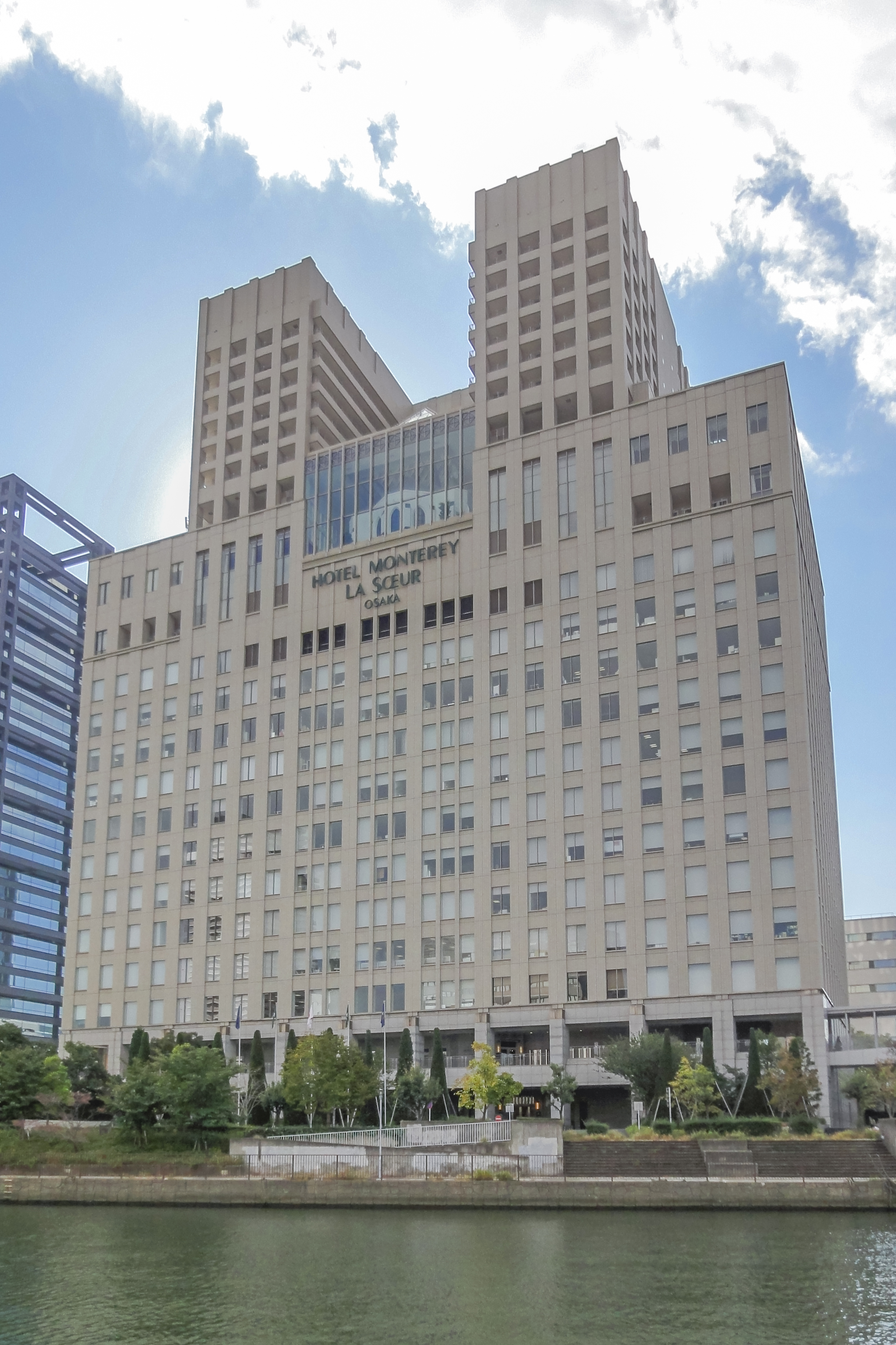 Photograph of the north view of Maruito OBP Building in Osaka Business Park (OBP), Chuo-ku, Osaka, Osaka Prefecture, Japan.